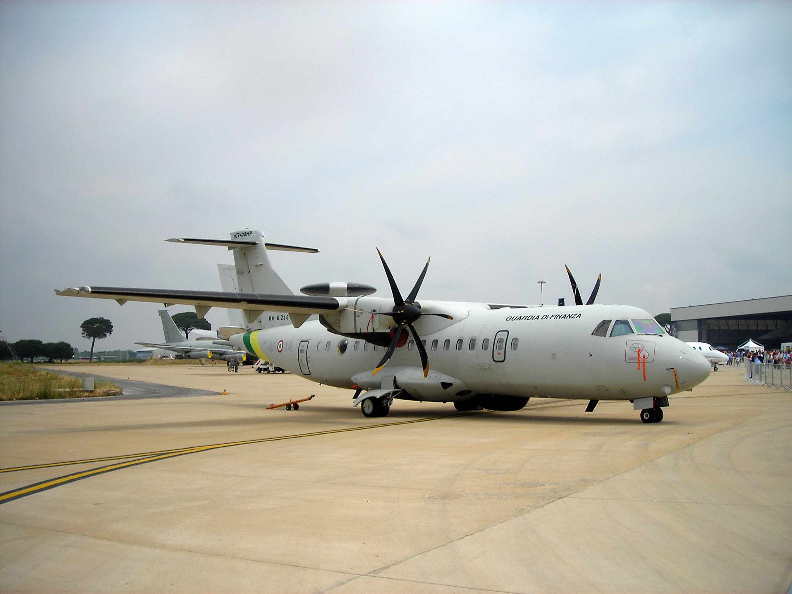 Picture taken during "Giornata Azzurra" 2007 (Italian Air Force airshow) at Pratica di Mare AFB, Italy. Guardia di Finanza ATR-42-400 MP (MM62166)